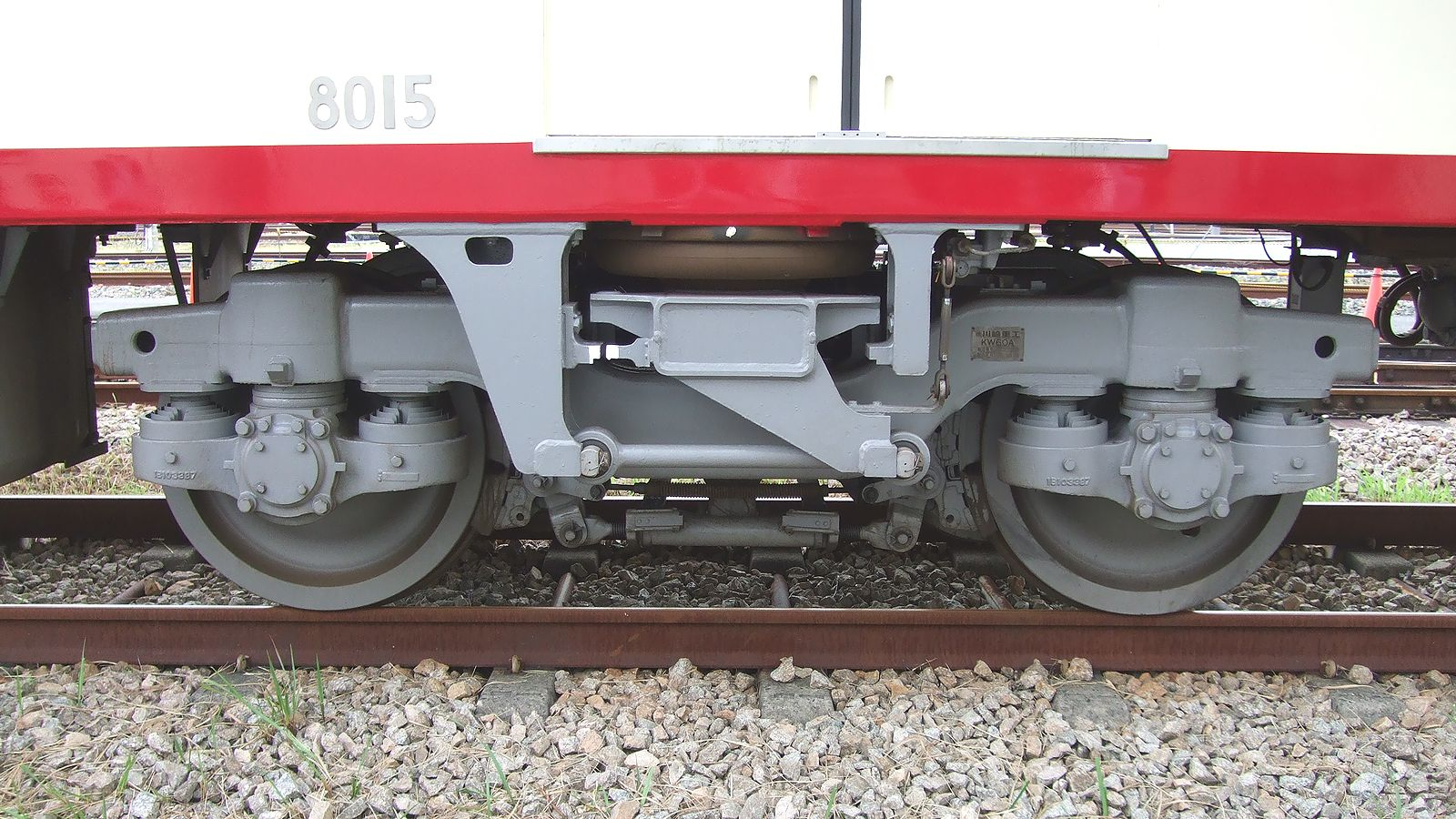 truck manufacturer:Kawasaki Heavy Industries truck type:KW60A Car type and number:Nishitetsu EMU type8000 mo8015 Place:at Chikushi Railway Yard, Chikushino, Fukuoka, Japan.